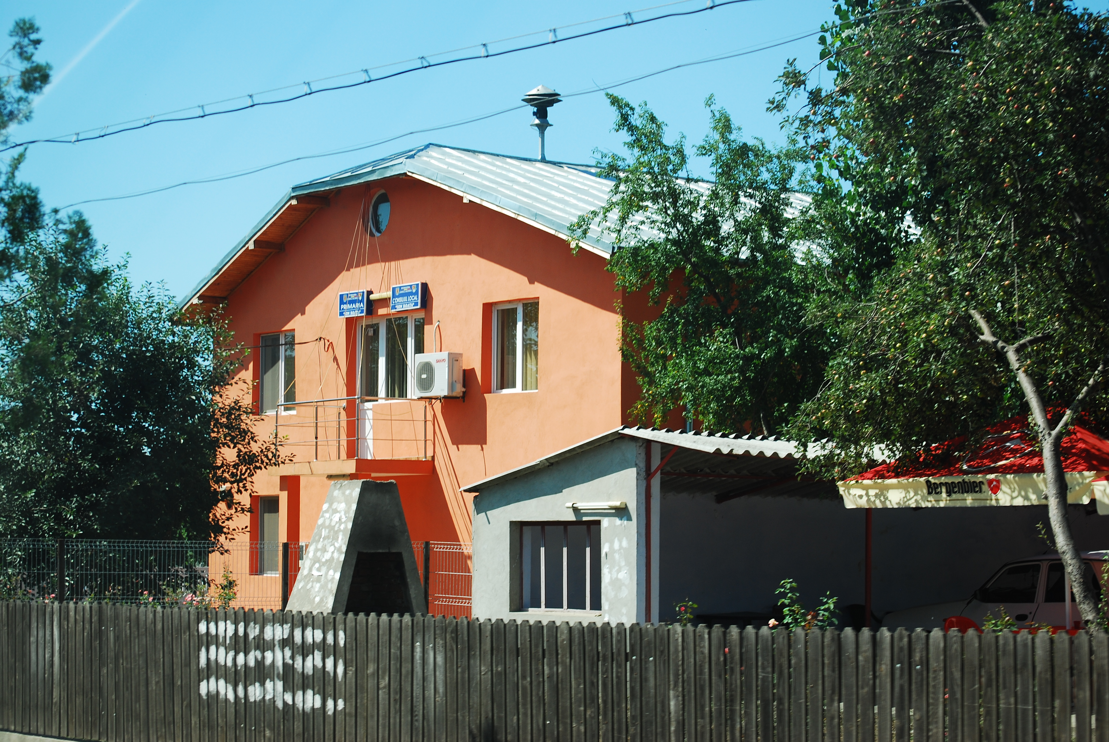 Ion Roată, Ialomiţa County, Romania town hall